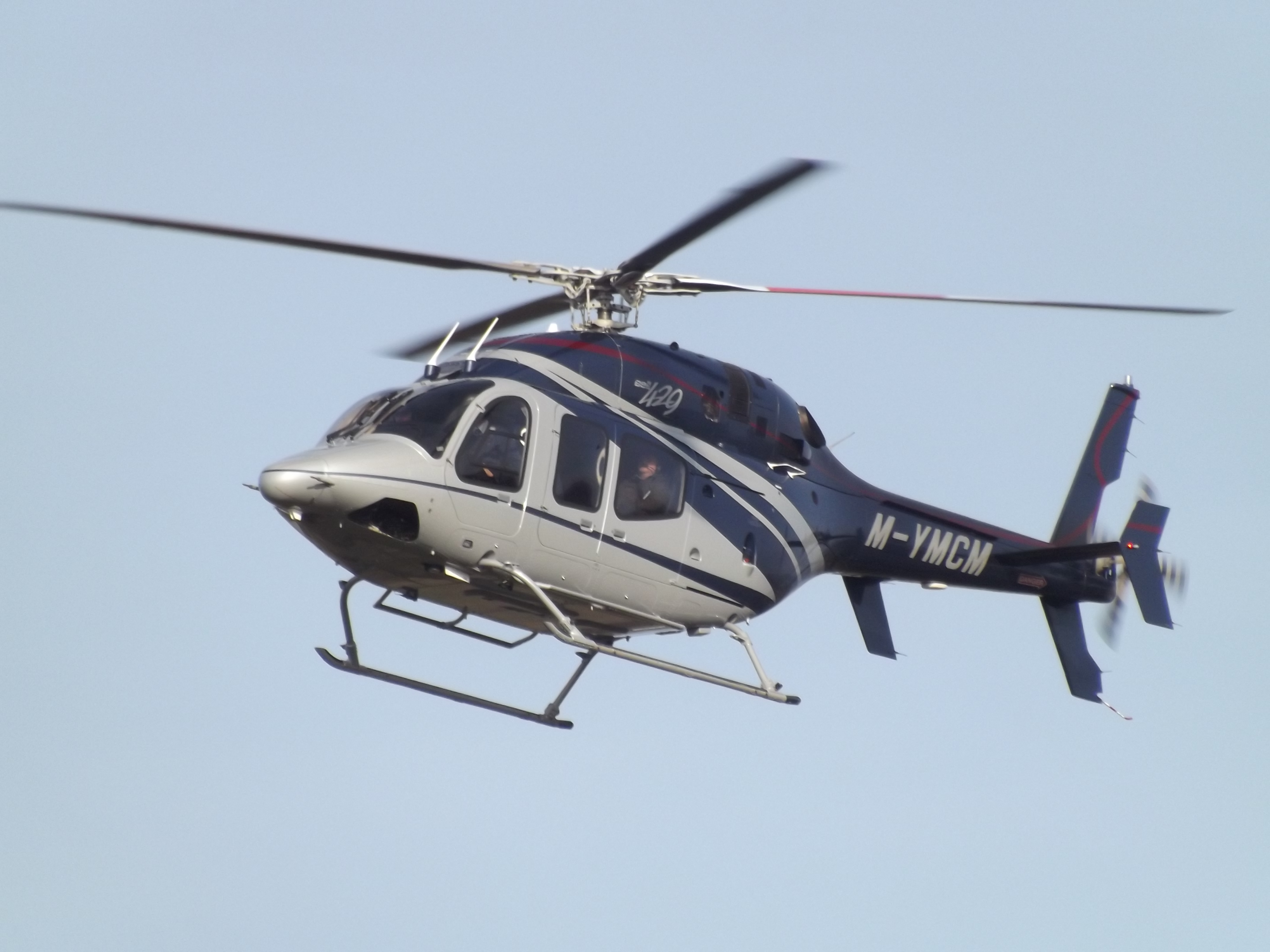 At Gloucestershire Airport.